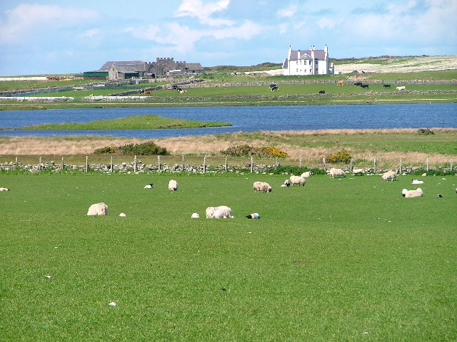 Ardnave Loch. Ardnave Loch is a site noted by the RSPB for mute swan, wigeon, teal, mallard, pochard and tufted duck. The view is north towards Ardnave farm. The island shown is a crannog.